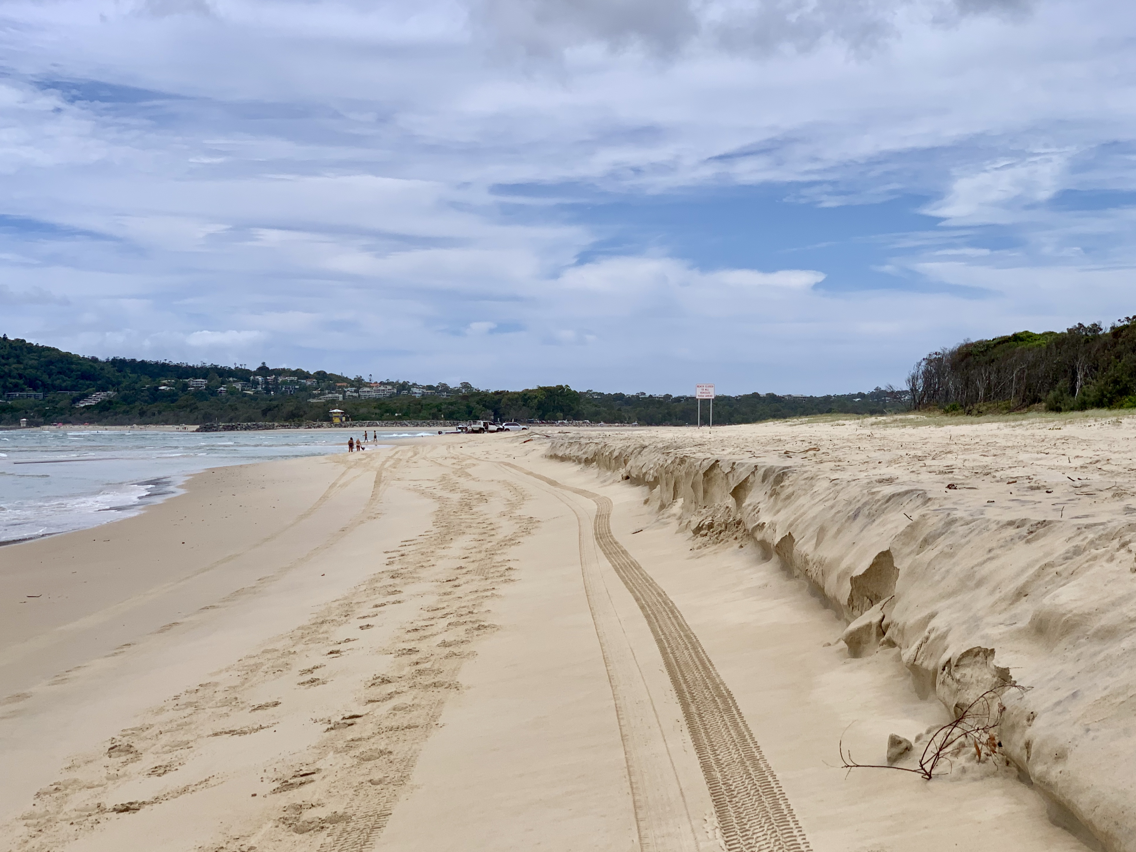 Beach erosion at the mouth of Noosa River, Noosa North Shore beach, Queensland, Australia